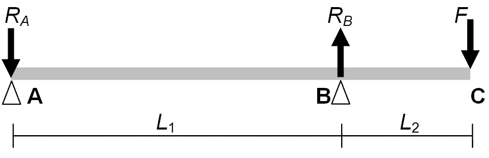 A simply supported beam with a cantilever